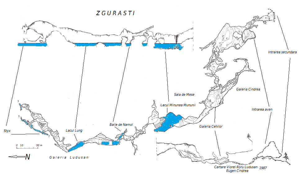 Plan si sectiune realizate in 1987